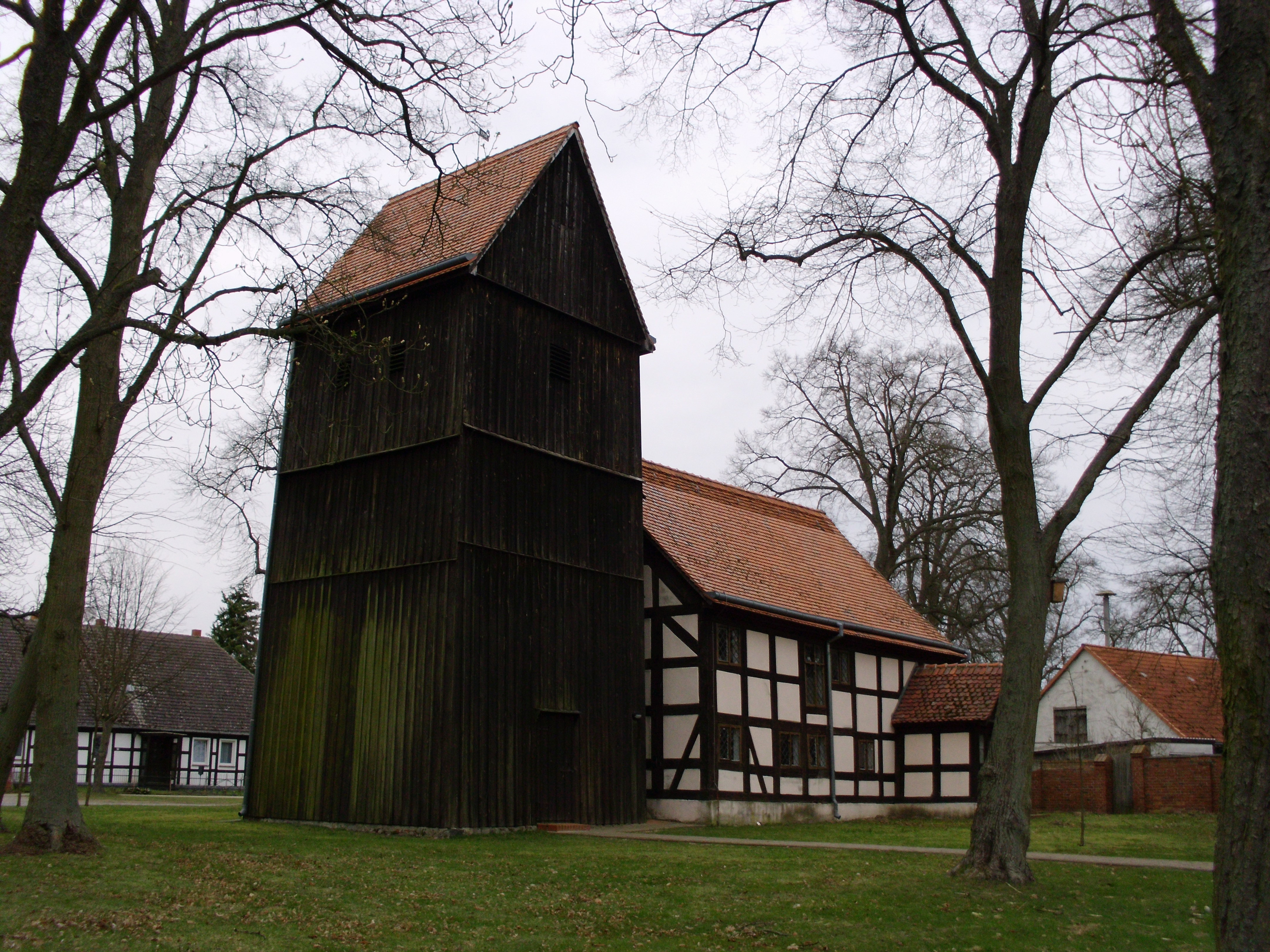 South-western view of Rägelin church, Temnitzquell municipality, Ostprignitz-Ruppin district, Brandenburg state, Germany